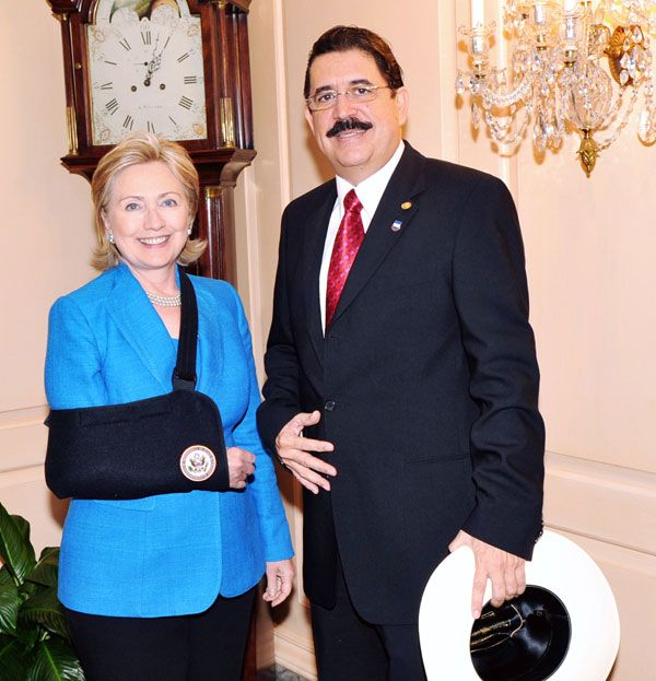 Secretary Clinton welcomes Honduran President Jose Manuel Zelaya to the State Department.